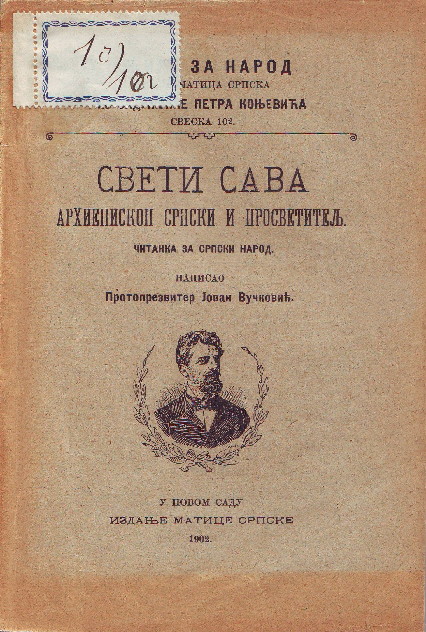 Cover of the book Sveti Sava arhiepiskop srpski i prosvetitelj (1902) by Jovan Vučković. Srpski (latinica): Naslovna strana knjige Sveti Sava arhiepiskop srpski i prosvetitelj (1902) Jovana Vučkovića.